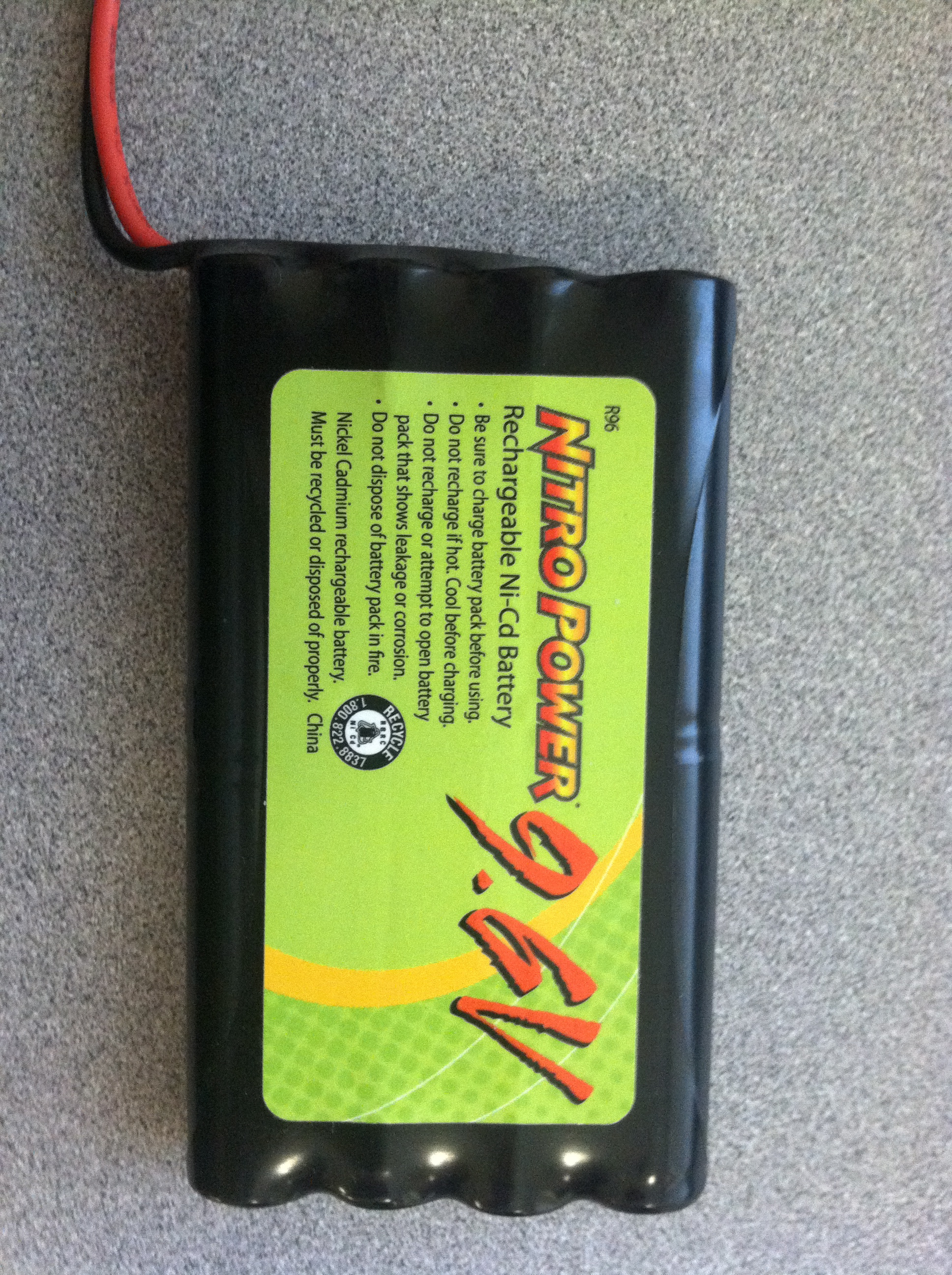 This is one of the three types of batteries that we are concerned about storing.